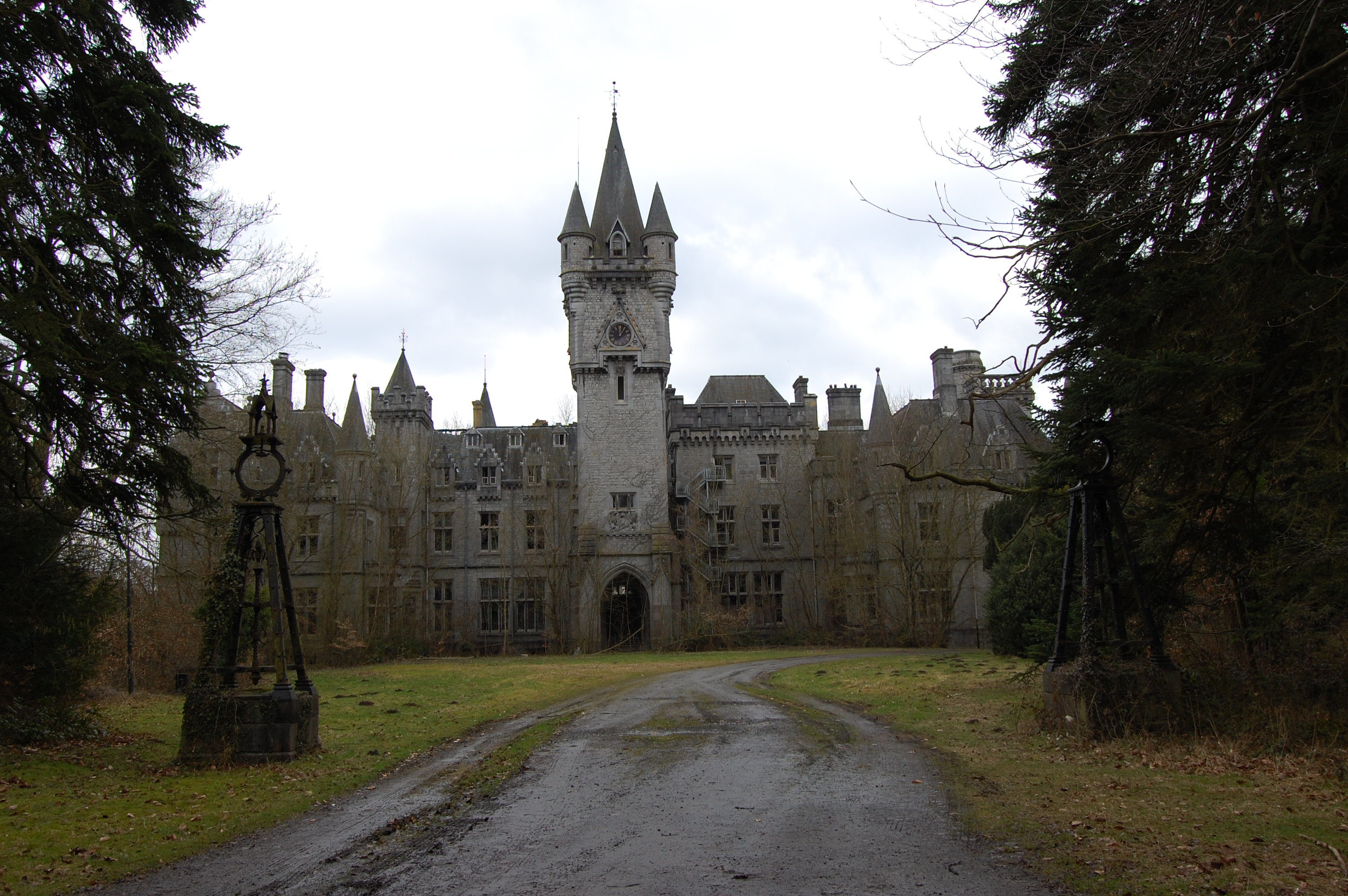 The front side of Castle Miranda.